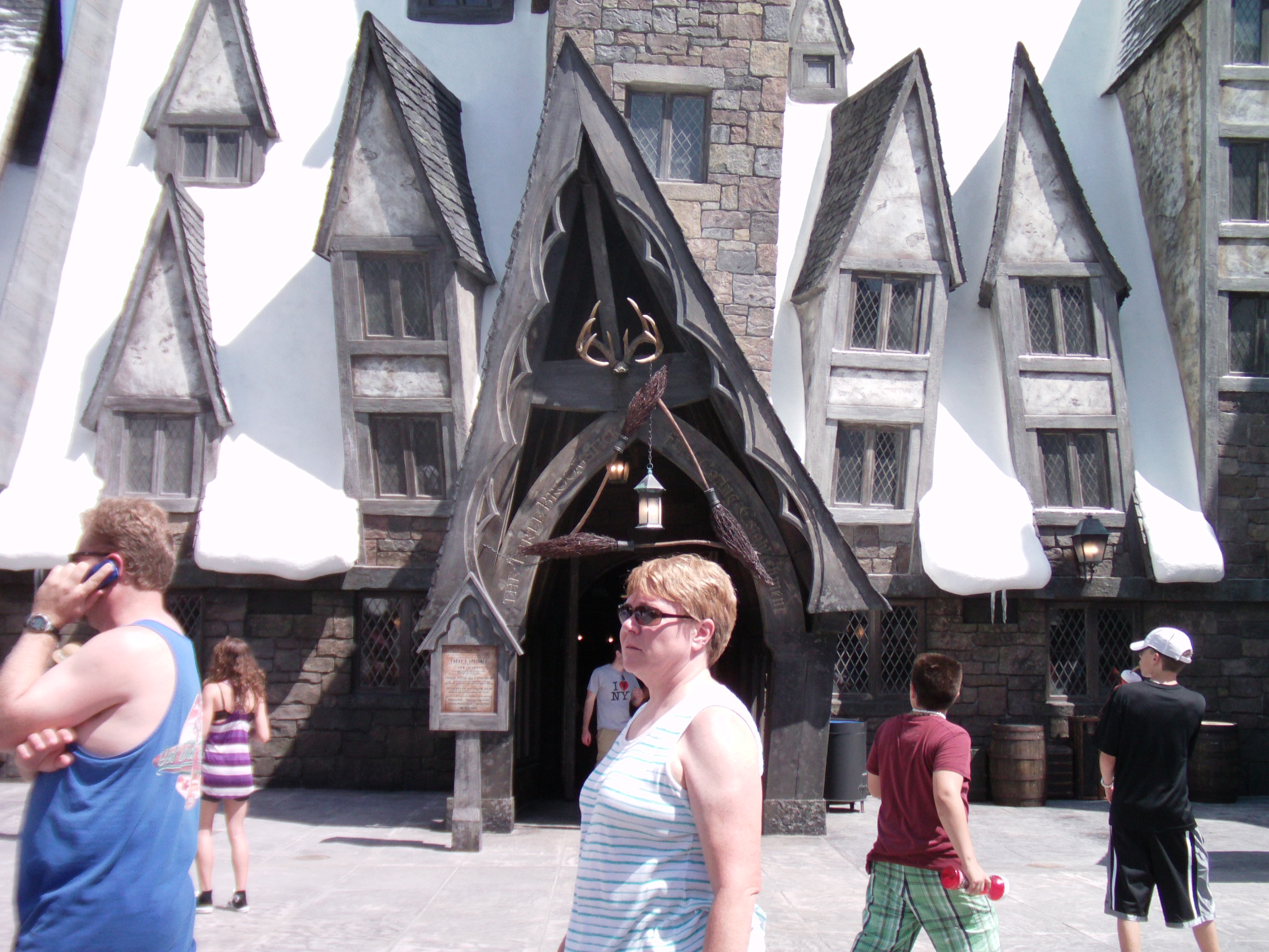 Entrance of The Three Broomsticks at Islands of Adventure.